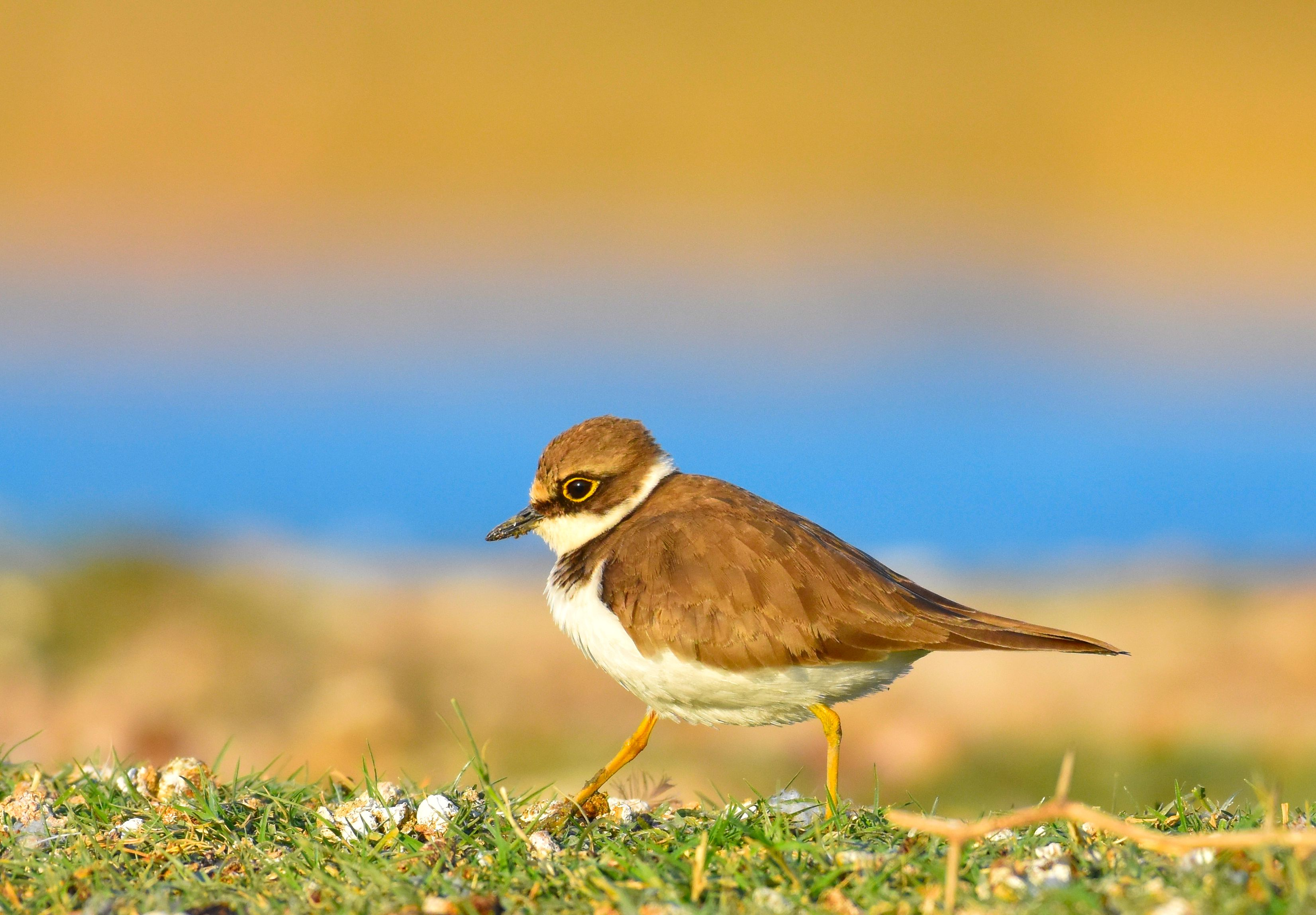 Little Ring Plover